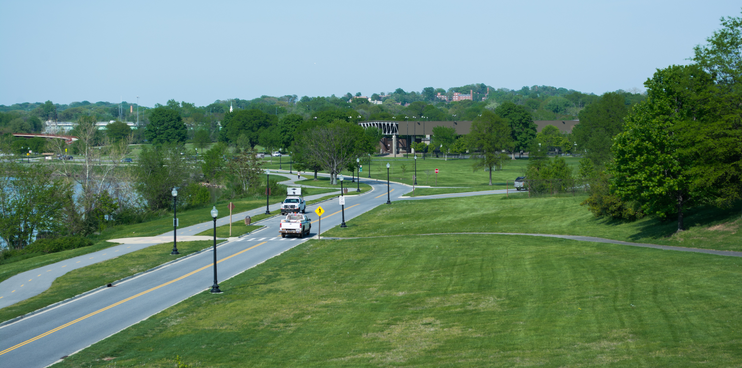 The Skating Pavilion and Section E of Anacostia Park in May 2014 in Washington, D.C., in the United States. The Skating Pavilion provides free indoor roller skating year-round.